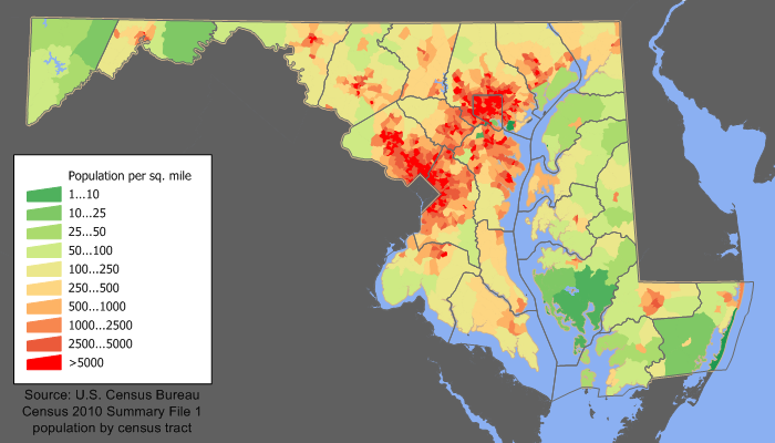 Category:U.S._State_Population_Maps Category:Maryland maps Maryland population distribution from Census 2010. See the process description for the data lineage.